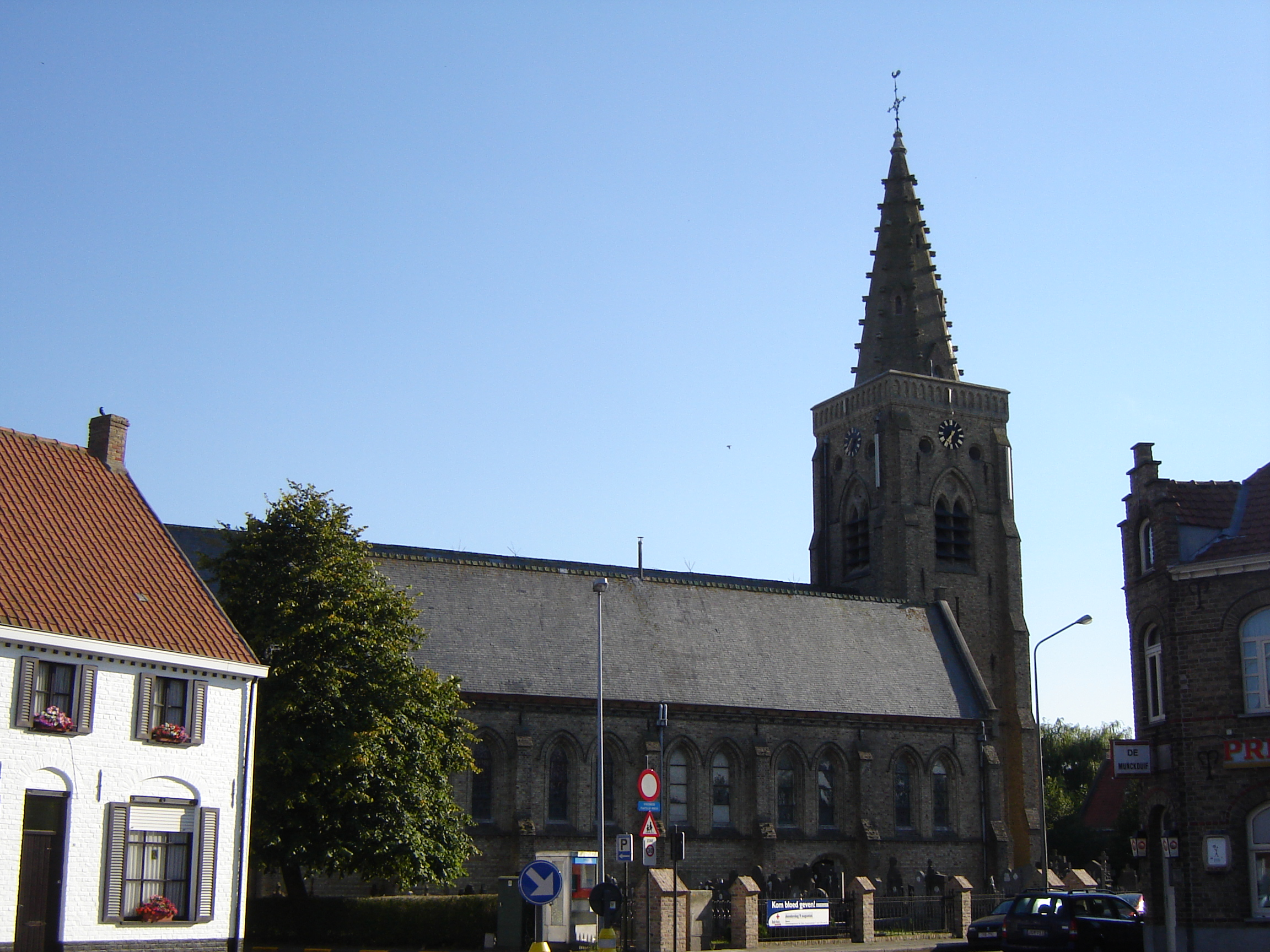 Church of Saint Wandrille in Beerst. Beerst, Diksmuide, West Flanders, Belgium